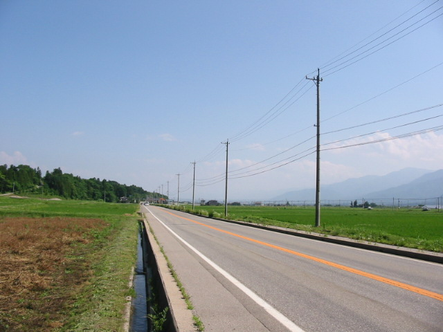 The Nagano Prefectural Road Route 51